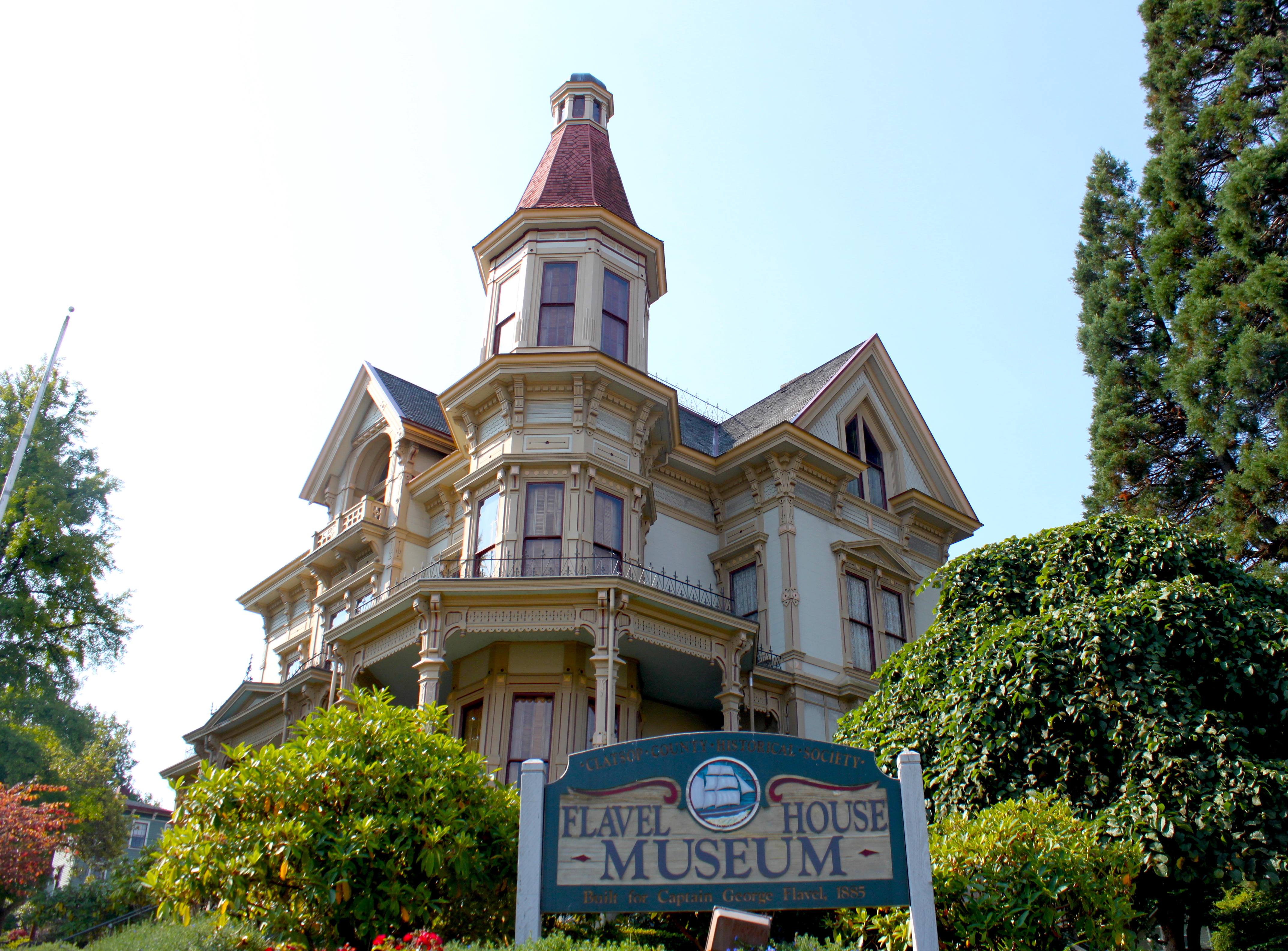 Flavel House in Astoria, Oregon, 2012